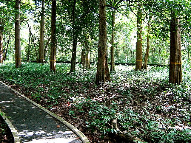 Conolly Plot